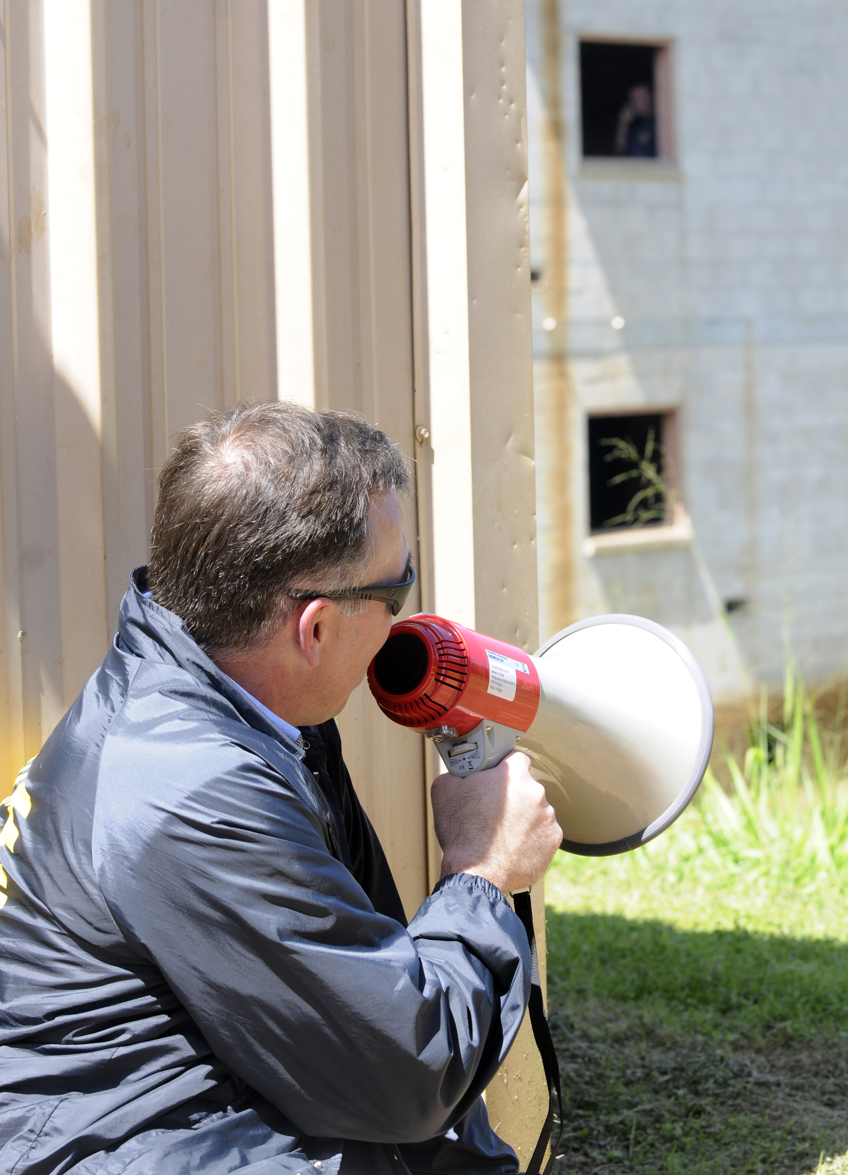 A special agent from the Criminal Investigation Command, here, negotiates with a role playing suspect in an attempt to free role playing hostages during a two-day all hazards training event held at Schofield Barracks, Feb. 26 -27. The all hazards approach allowed for the integration of Military Police, Federal Fire Department, EOD Soldiers, CID special agents, and Chemical Soldiers to respond to various consequence management incidents. (Photo by Staff Sgt. Richard Sherba, 8th Military Police Brigade Public Affairs, 8th Theater Sustainment Command)